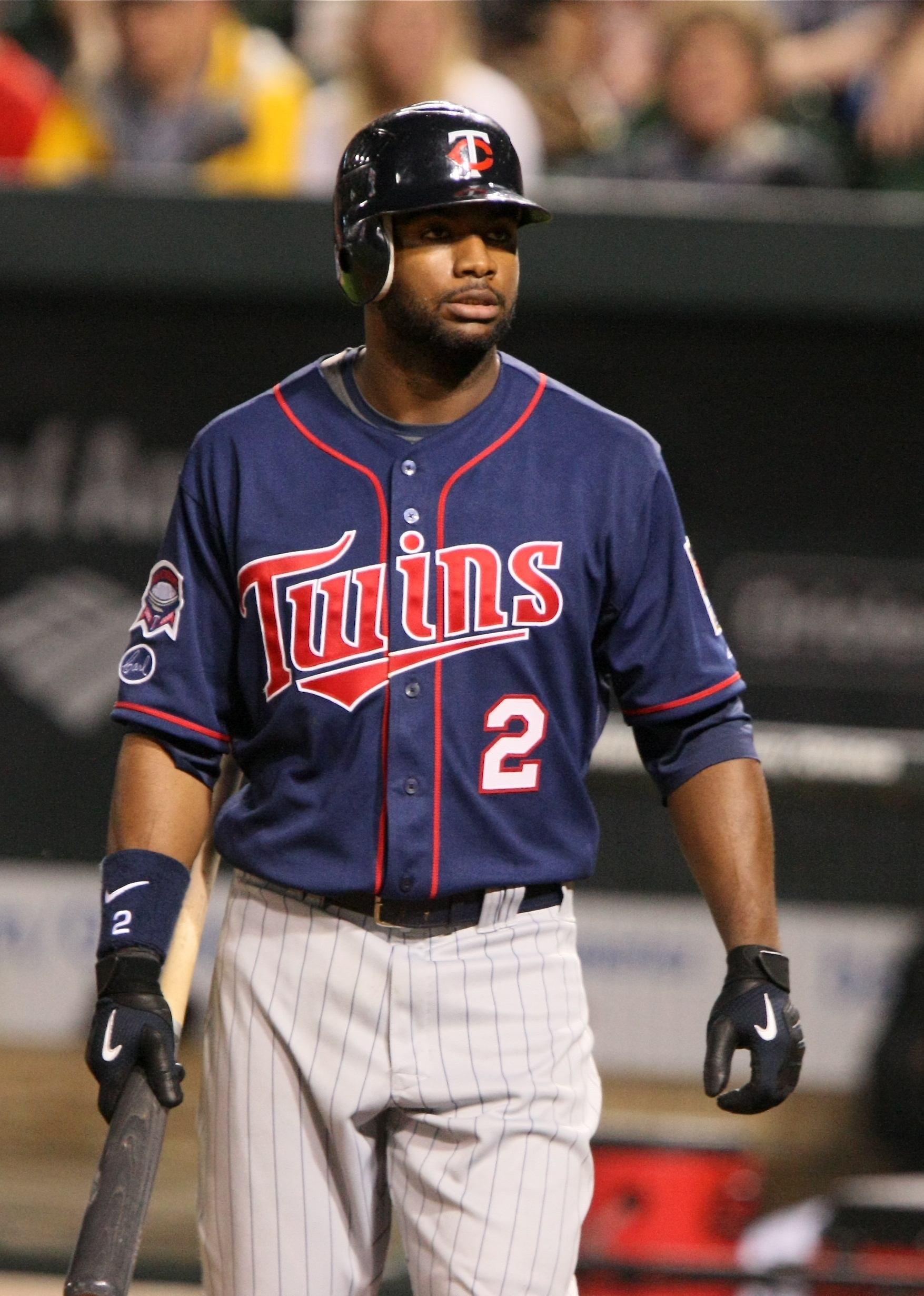 Denard Span